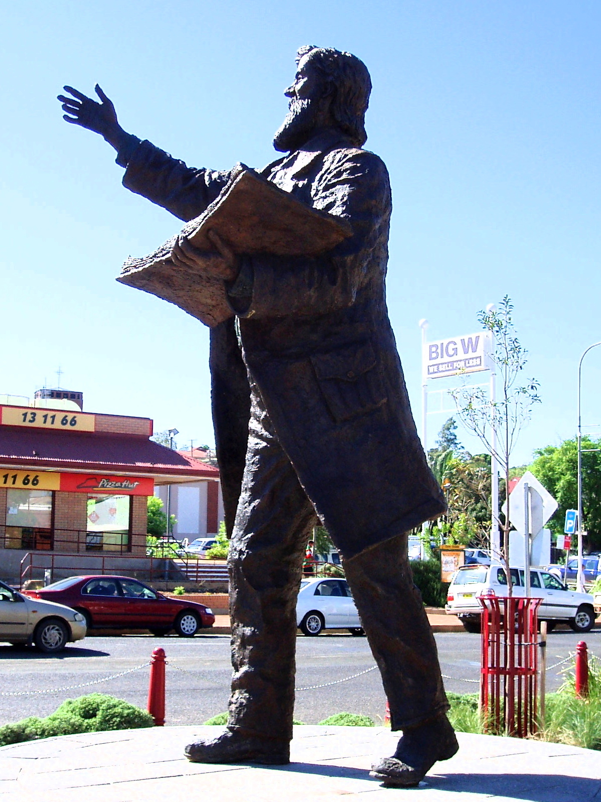 Parkes was a goldmining settlement originally named Bushman's, but following visits from New South Wales Colonial Secretary (also referred to as Prime Minister) Sir Henry Parkes on two occasions in 1873 and finally in 1893, the townspeople nominated to change the name of the town in honour of the great statesman. The anecdotal story goes that it was actually a political move from the locals who were also lobbying the then NSW Prime Minister Henry Parkes to construct the east-west rail line through Parkes, so to help sway his opinion... they named their town after him!